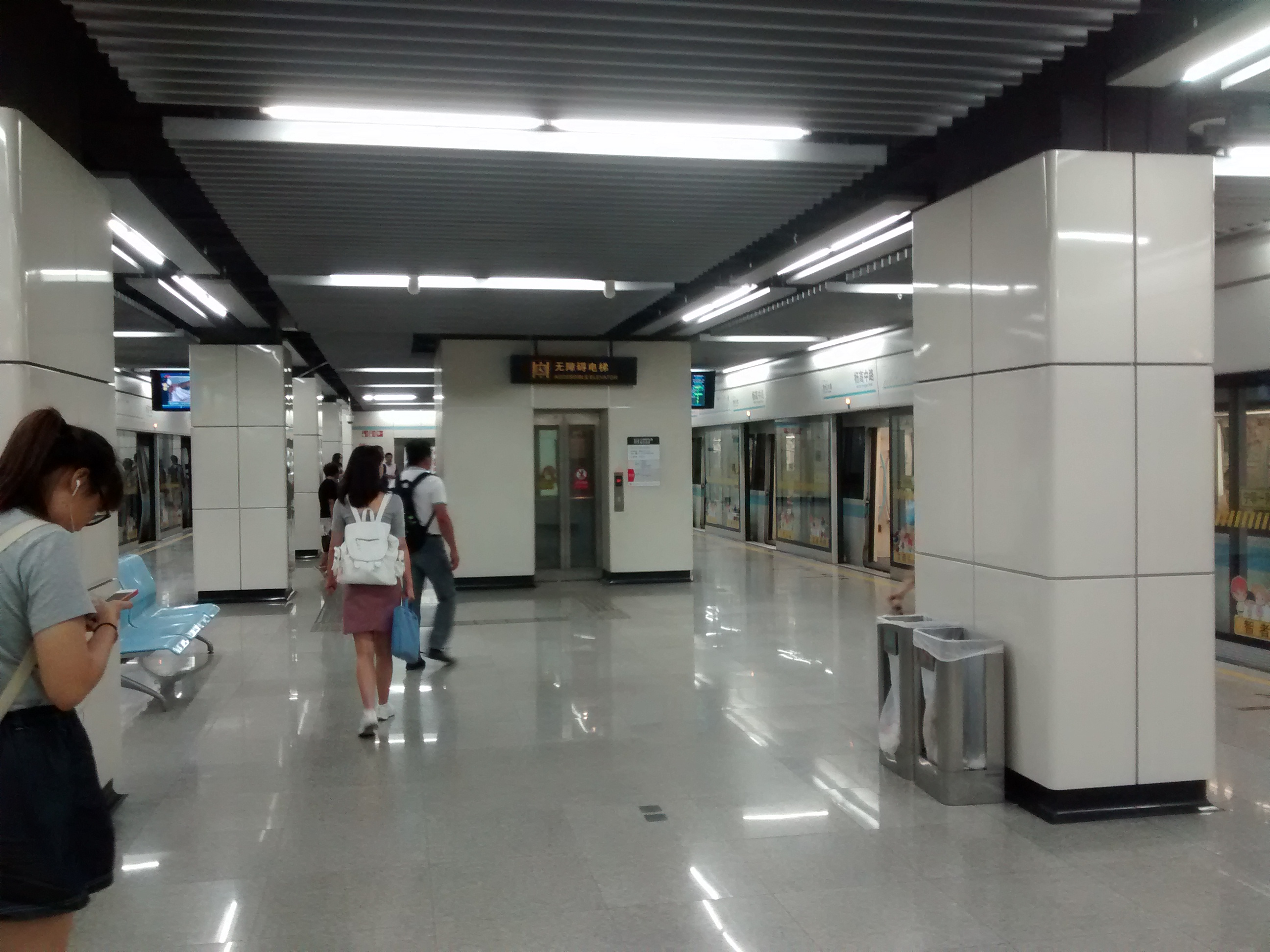 Middle Yanggao Road station, Shanghai. The latitude and longitude in the EXIF data are incorrect.